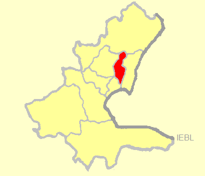 Location of Centar municipality in Sarajevo Canton